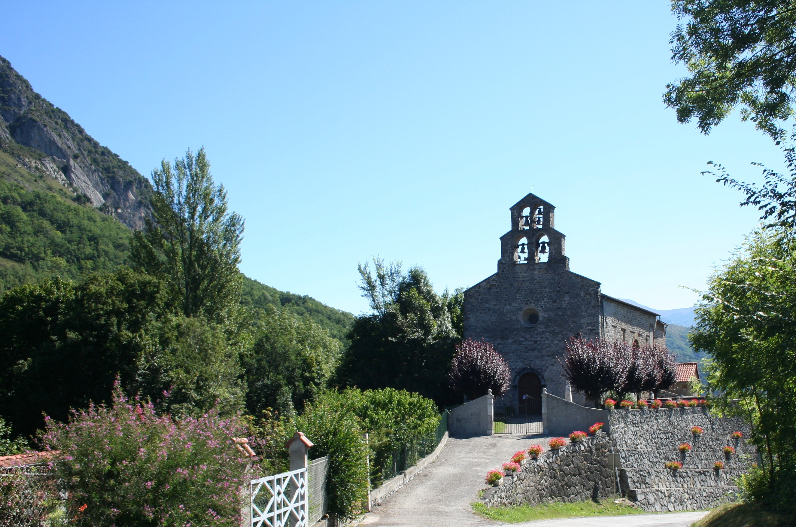 church Saint-Nicolas of Surba village (Ariège, France).